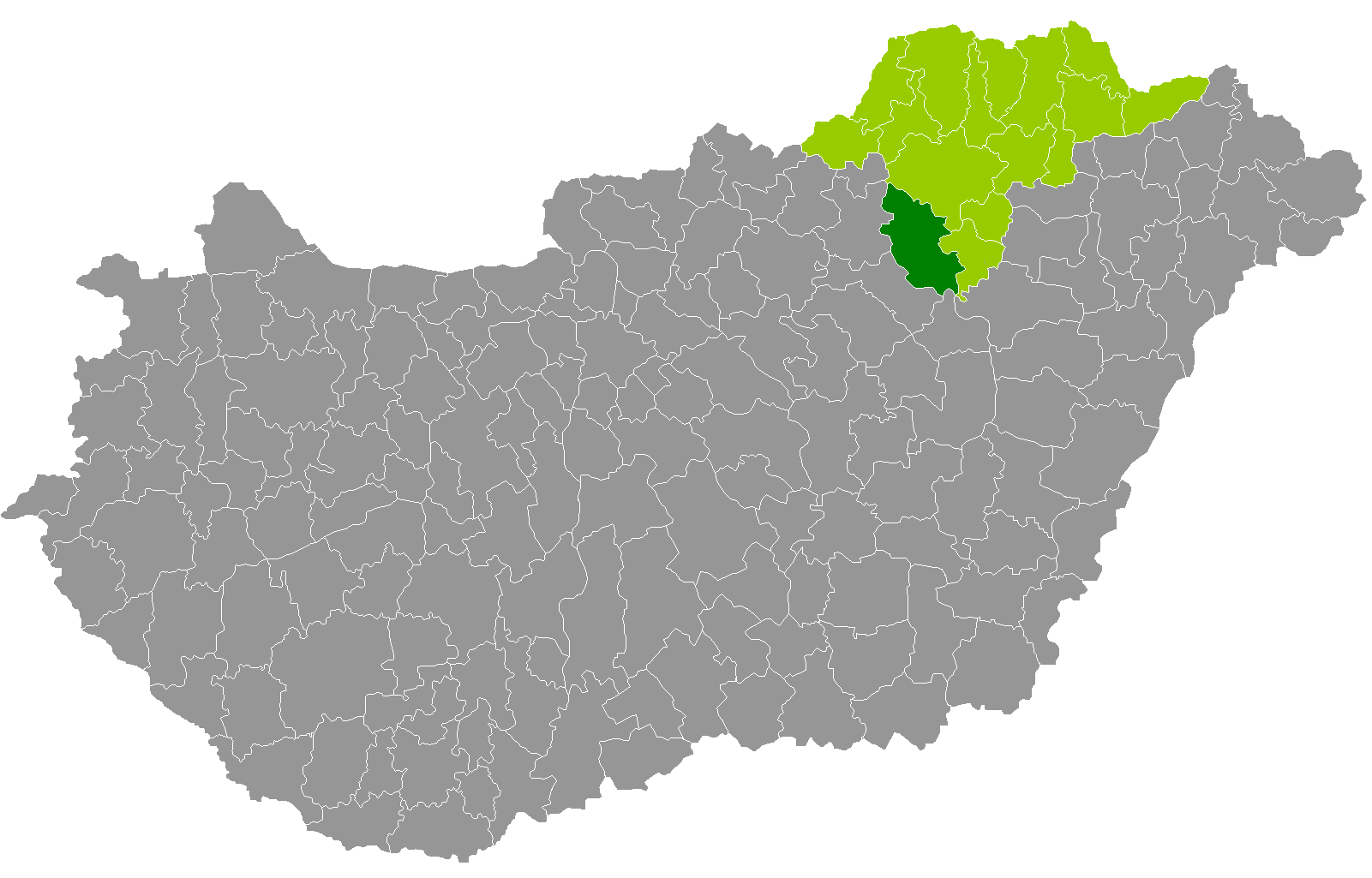 Location of Mezőkövesd District, Borsod-Abaúj-Zemplén, Hungary